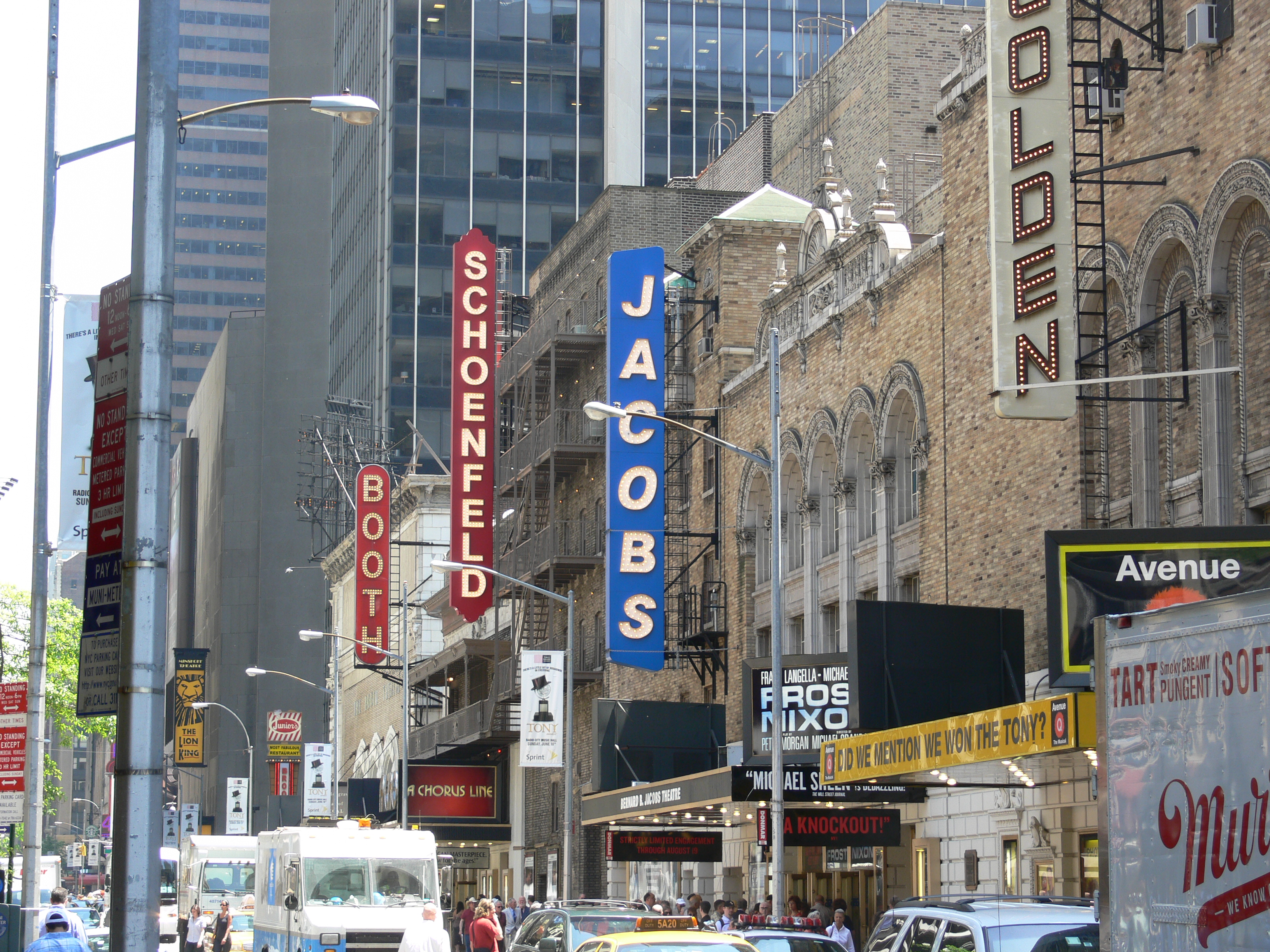 45th Street, Manhattan, New York City from left to right: Minskoff Theatre (far left, in the background) Booth Theatre Gerald Schoenfeld Theatre Bernard B. Jacobs Theatre John Golden Theatre